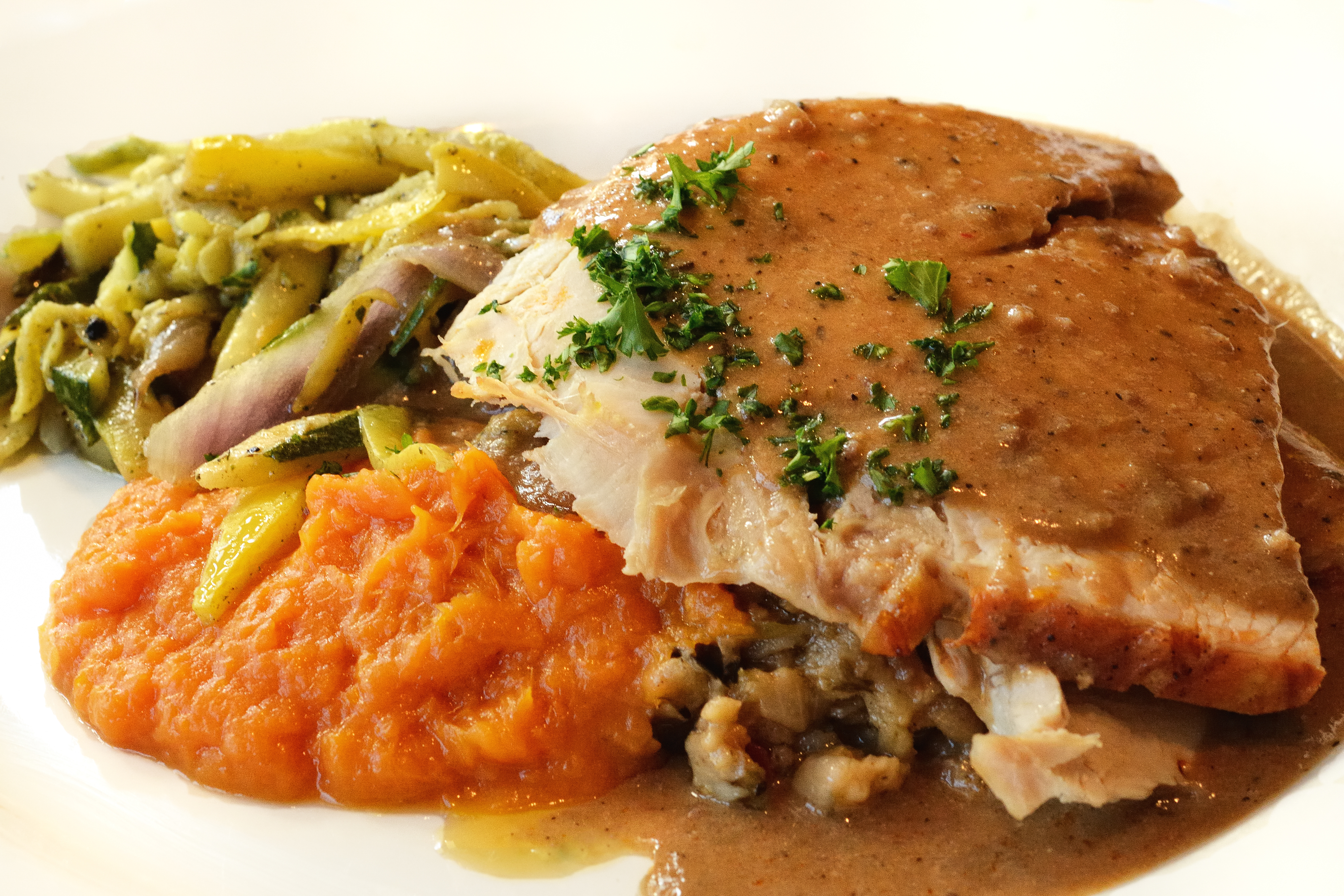 Thanksgiving at Veranda on Highland in Birmingham, Alabama Roasted American Turkey with French bread dressing, bourbon whipped sweet potatoes, grilled autumn vegetables and giblet gravy